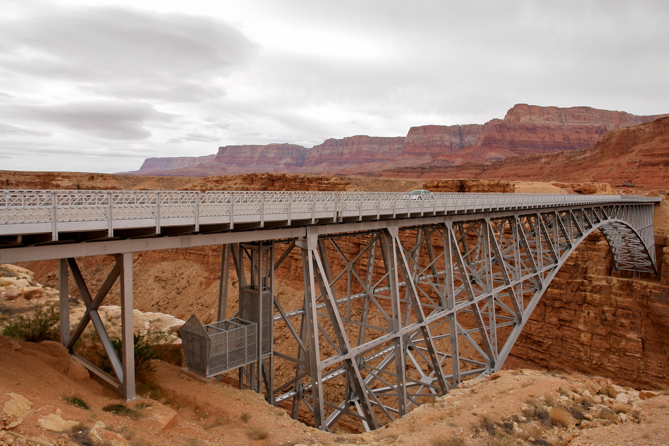 Car Crossing the Navajo Bridge (Route Alt 89)